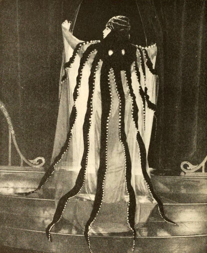 Still for the American silent film The Affairs of Anatol (1921) with Bebe Daniels wearing the Octopus Gown, on page 20 of the September 1921 Photoplay. The gown was designed by Clare West.